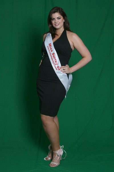 Miss Surrey Chloe Marshall during the Miss England 2008 election